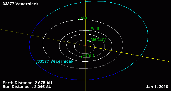 Position of 33377 Vecernicek asteroid